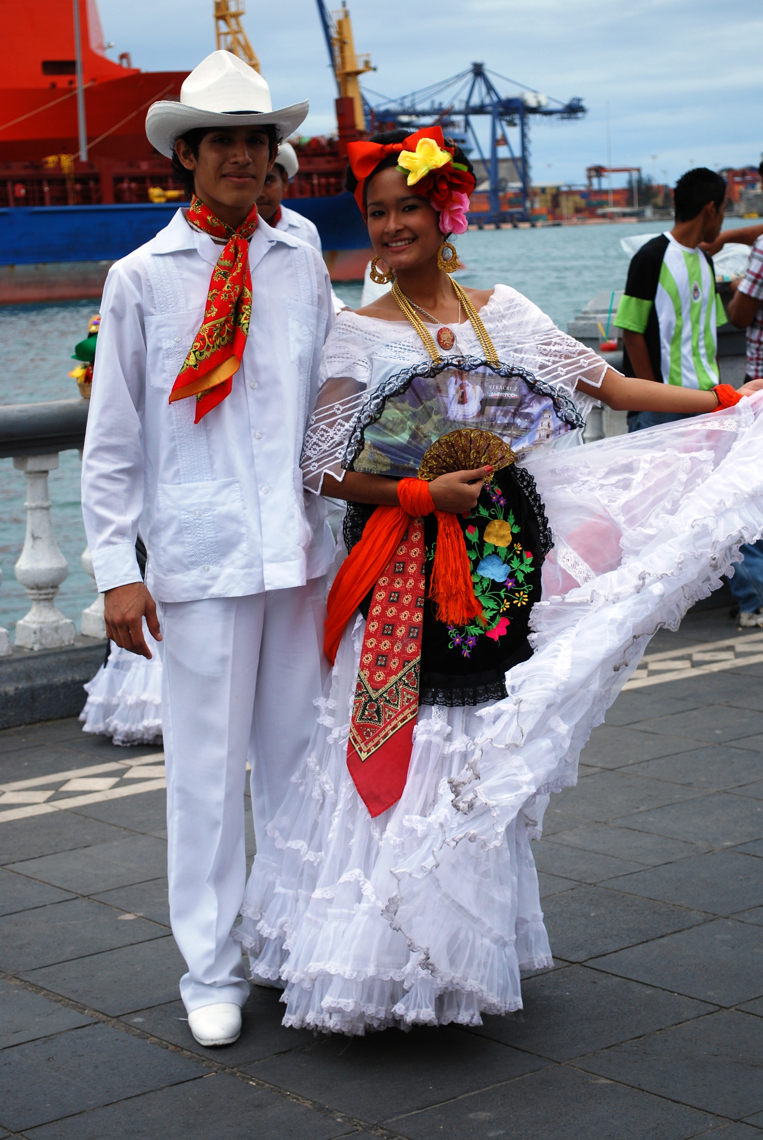 Young couple in traditional Veracruz dress on the malecon (boardwalk) of the city of Veracruz, Mexico